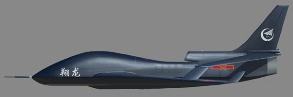 Side view of PLAAF's HALE-UAV Soar Dragon.